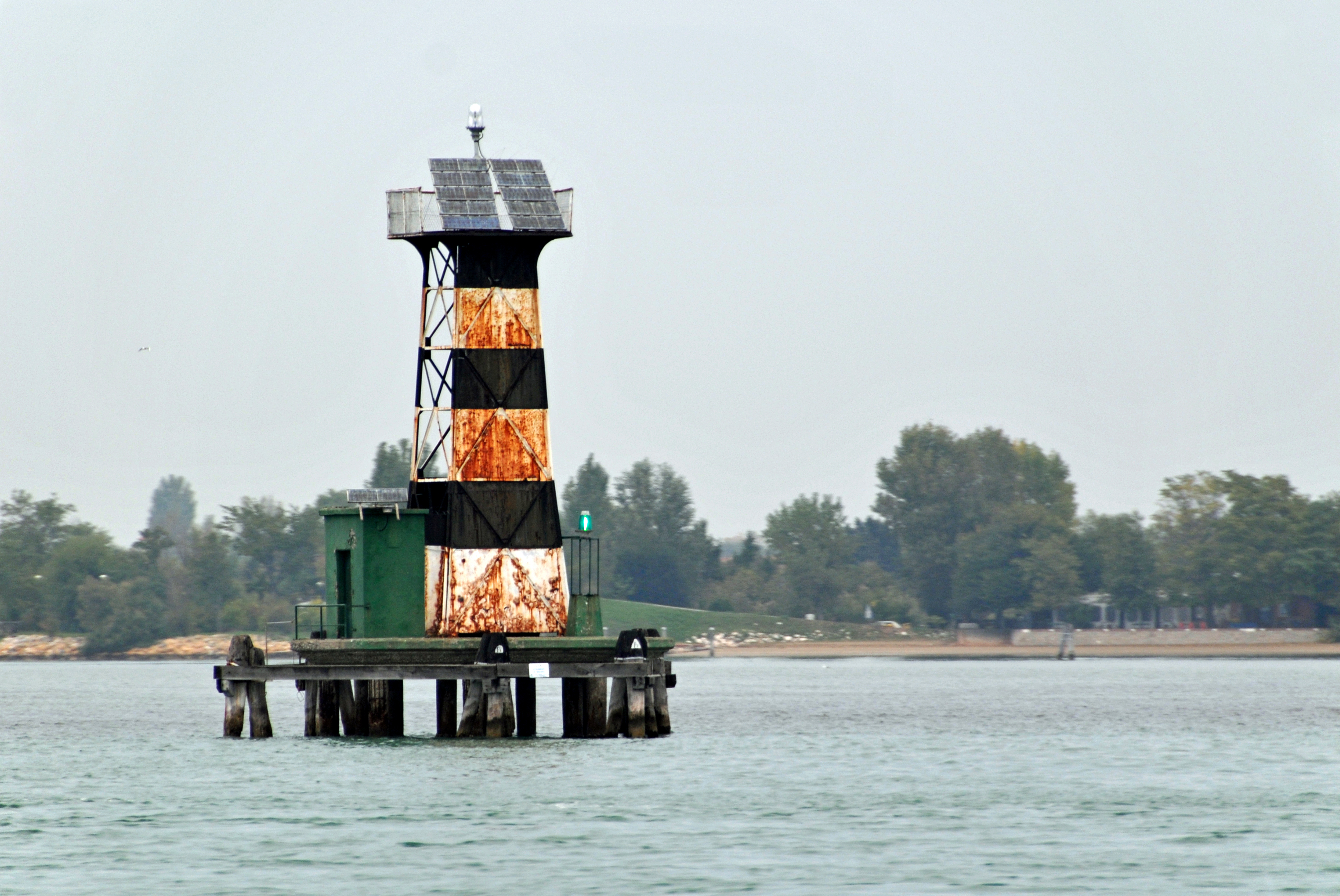 PLEASE, no multi invitations, glitters or self promotion in your comments. My photos are FREE for anyone to use, just give me credit and it would be nice if you let me know. Thanks A solar powered range light in the main channel of the Venetian Lagoon